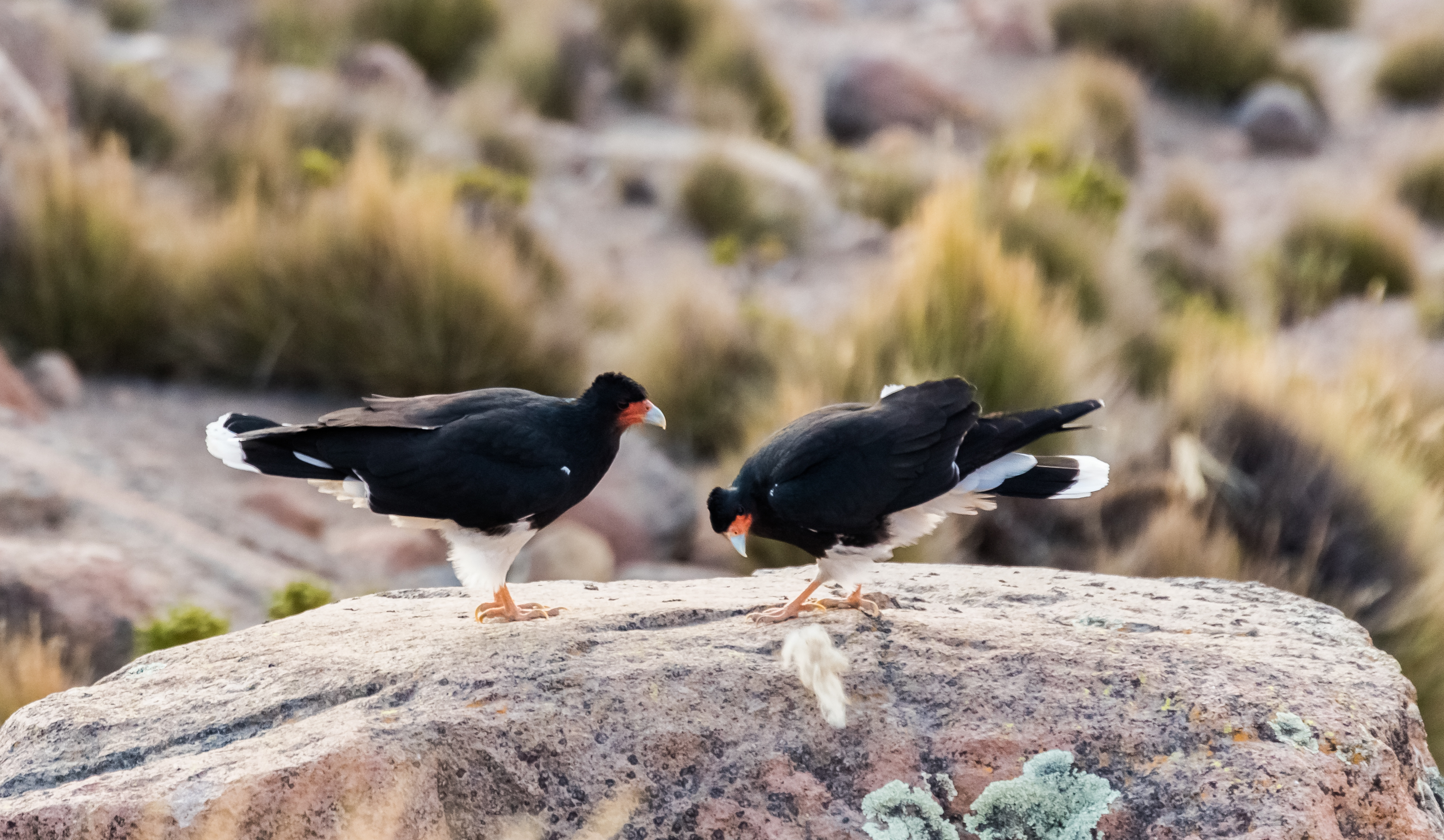 Mountain caracara (Phalcoboenus megalopterus), Colca Canyon, Peru